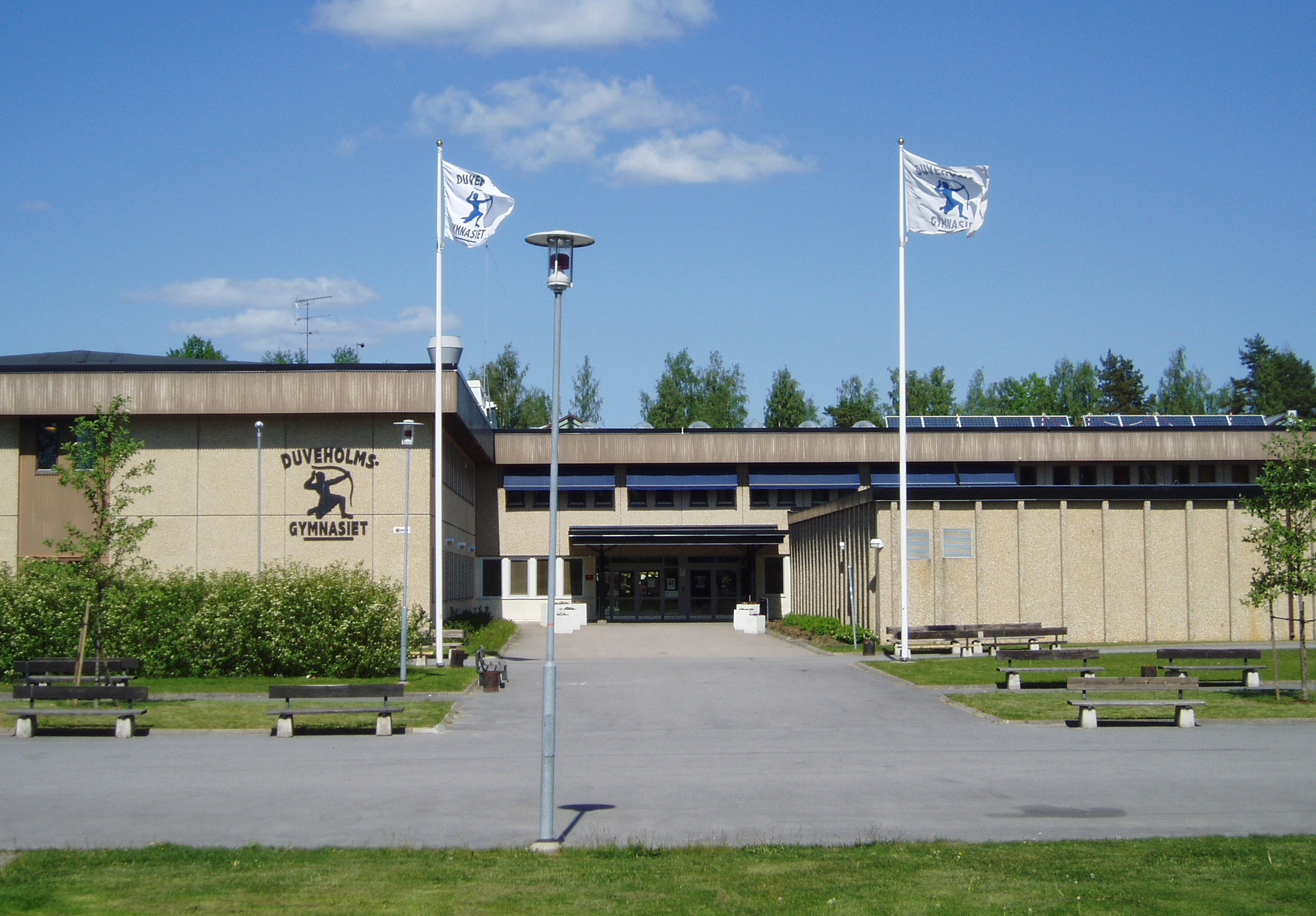 Duveholmsgymnasiet, gymnasium in Katrineholm, Sweden